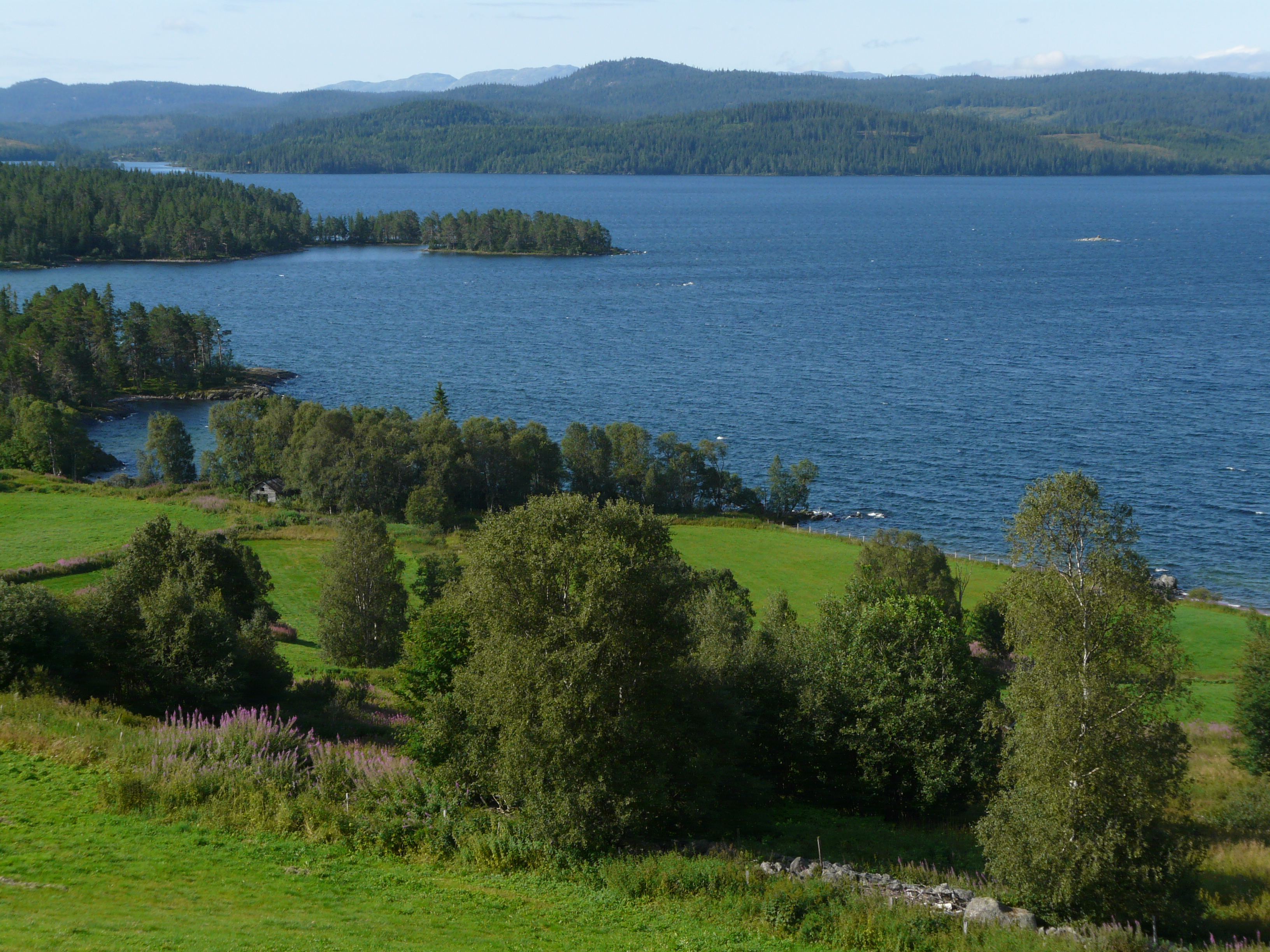 Totak.